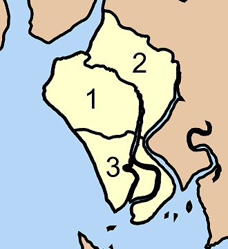 Map of Hat Samran minor district, Trang province, Thailand, with the communes (tambon) numbered. Hat Samran (หาดสำราญ) Ba Wi (บ้าหวี) Ta Se (ตะเสะ)